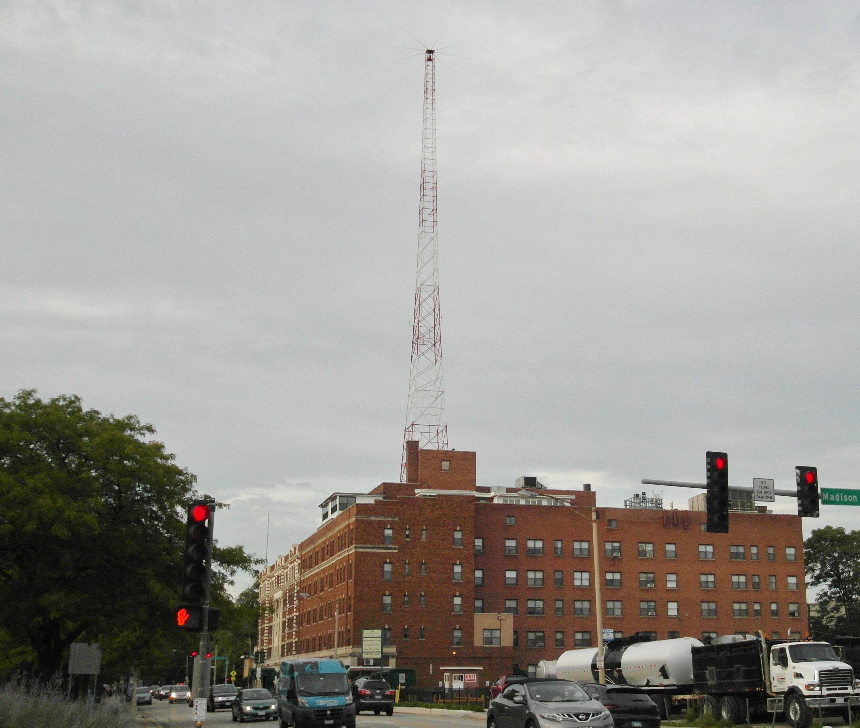 WPNA's tower atop the Oak Park Arms in Oak Park, Illinois from the southwest.